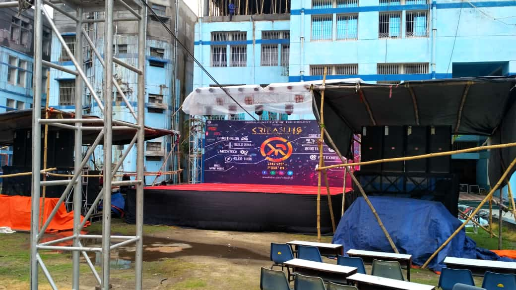 Stage for annual tech fest "Kritanj" at Narula Institute of Technology